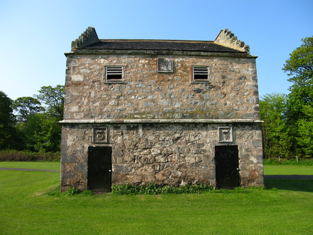 Pinkie House Doocot. Two-chambered lectern doocot at Pinkie House. The doocot now stands in the sports fields of a school. There are decorative panels above the doors and a marriage stone that refers to Alexander Seton and Margaret Hay, married in 1607. Pigeons still in residence.